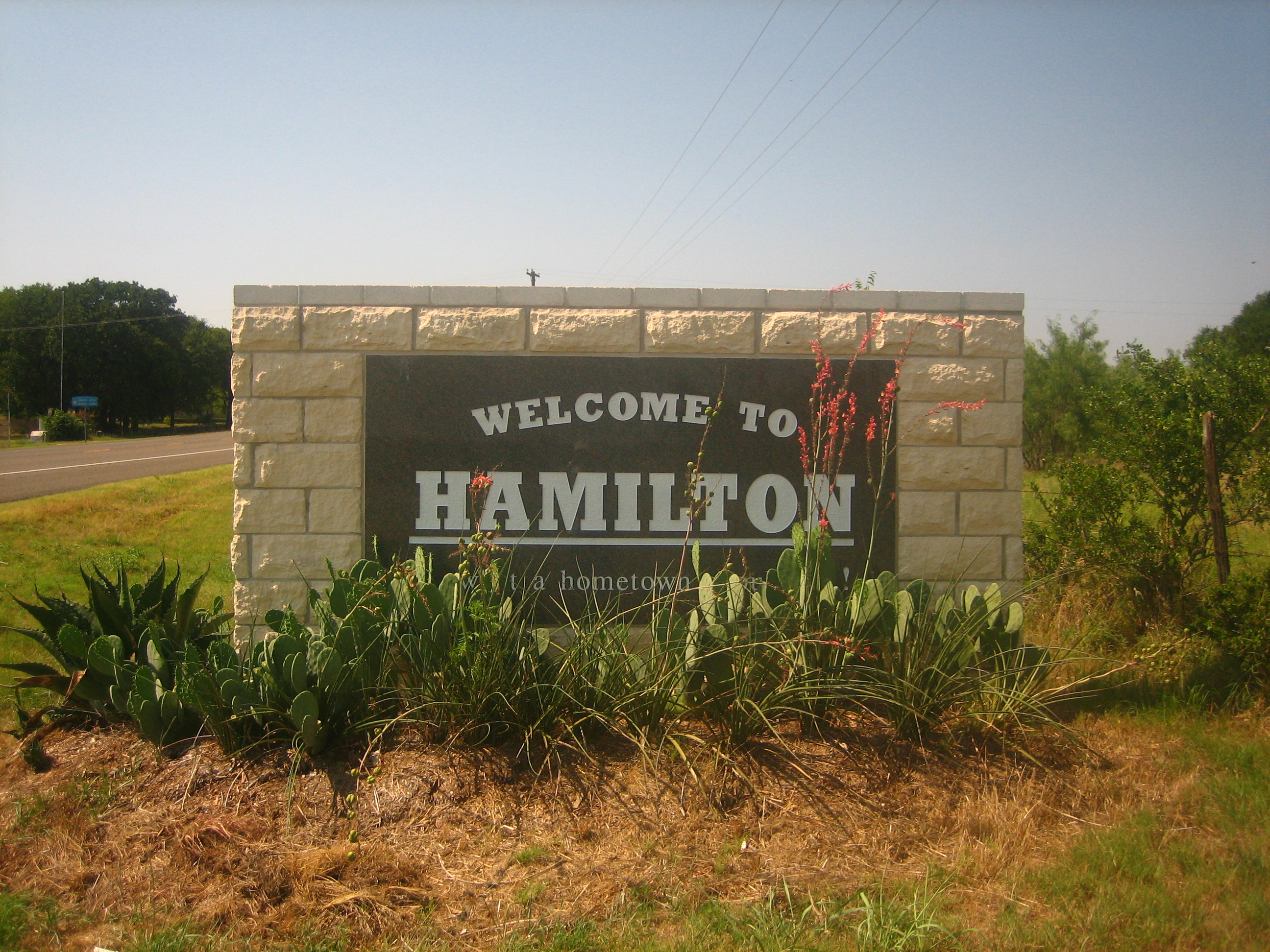 I took photo on July 17, 2008.Billy Hathorn (talk) 13:58, 26 July 2008 (UTC)